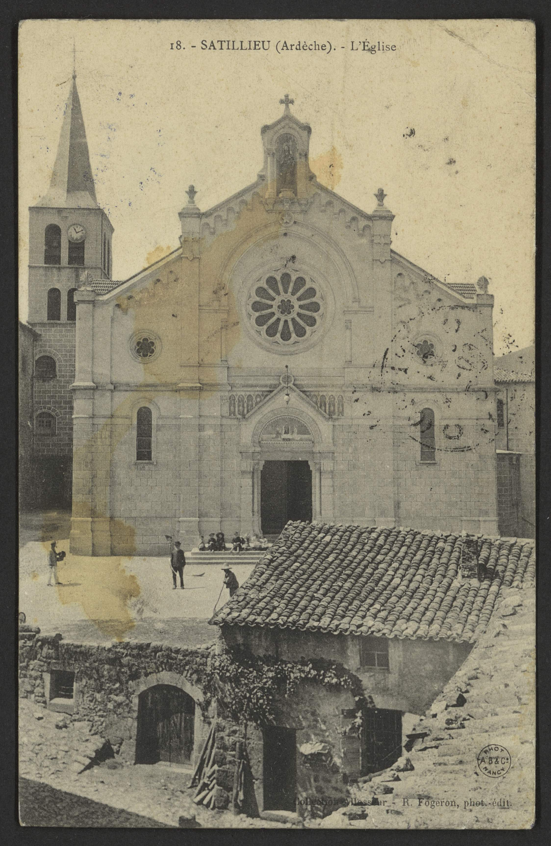 Bâtiments religieux Ardèche